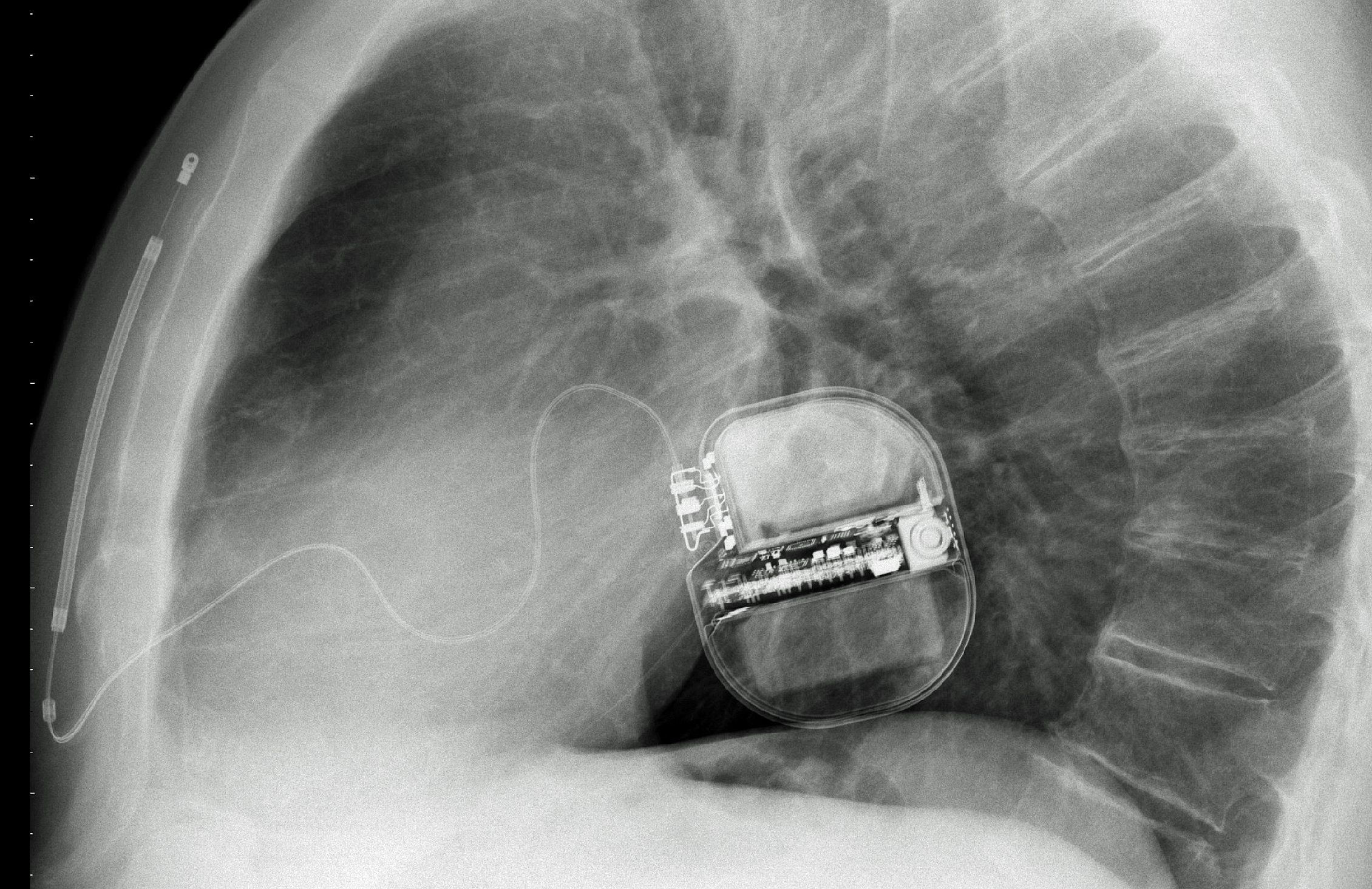 Implanted subcutaneous ICD (X-ray side view of chest)